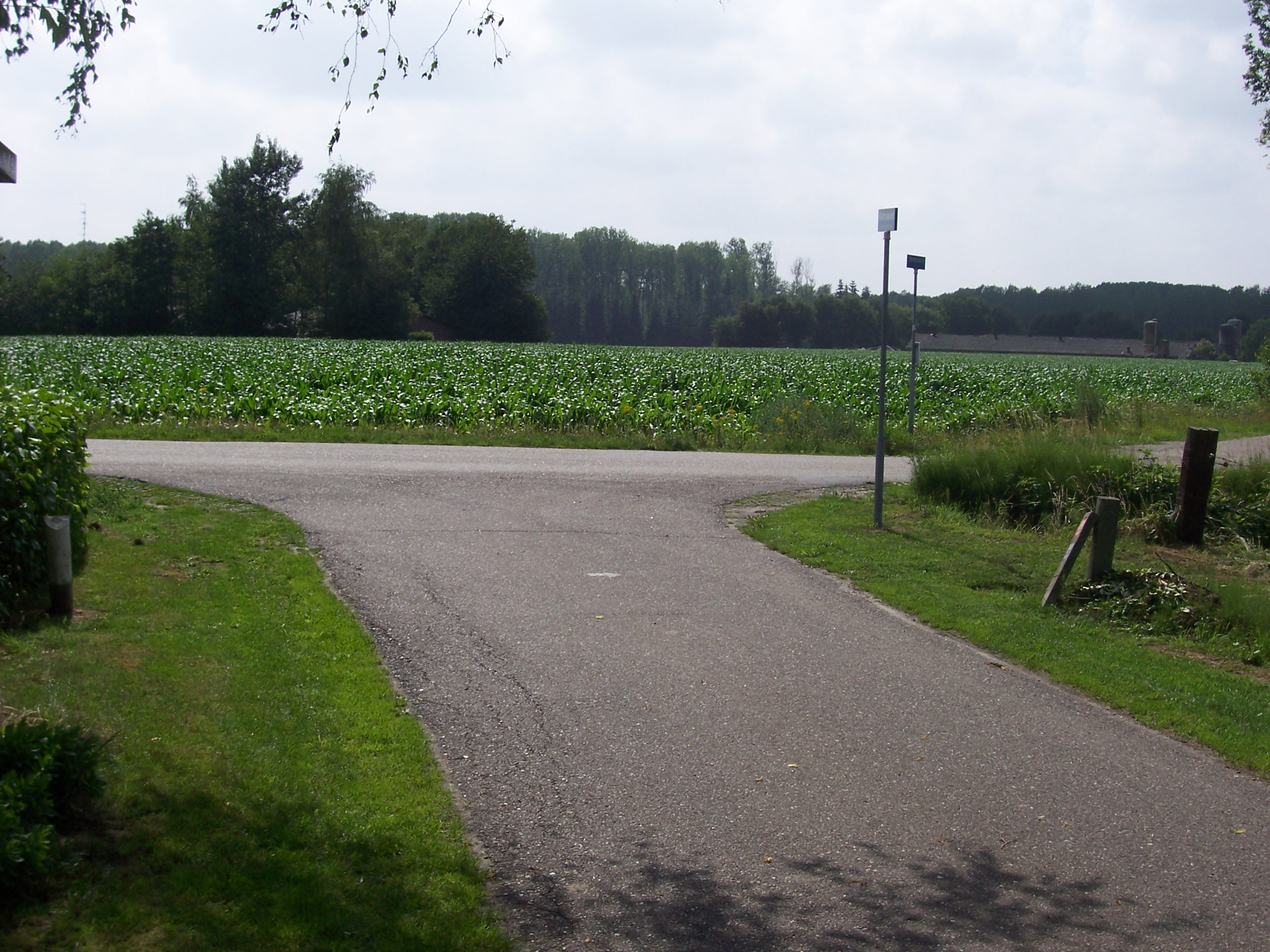 Kruispunt Mathijseind Bakel